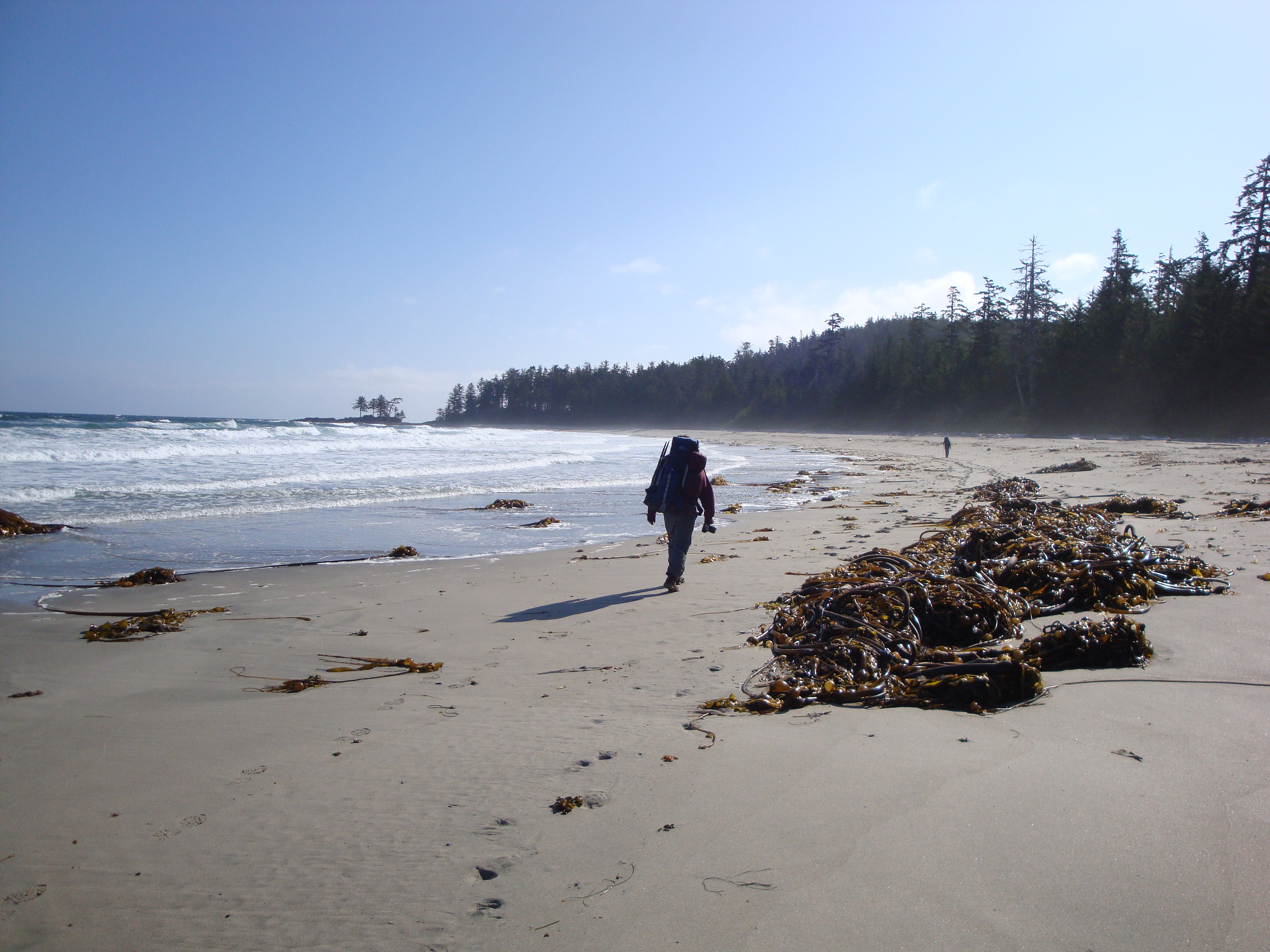 Backpackers on the beach at Experiment Bight, Cape Scott Provincial Park